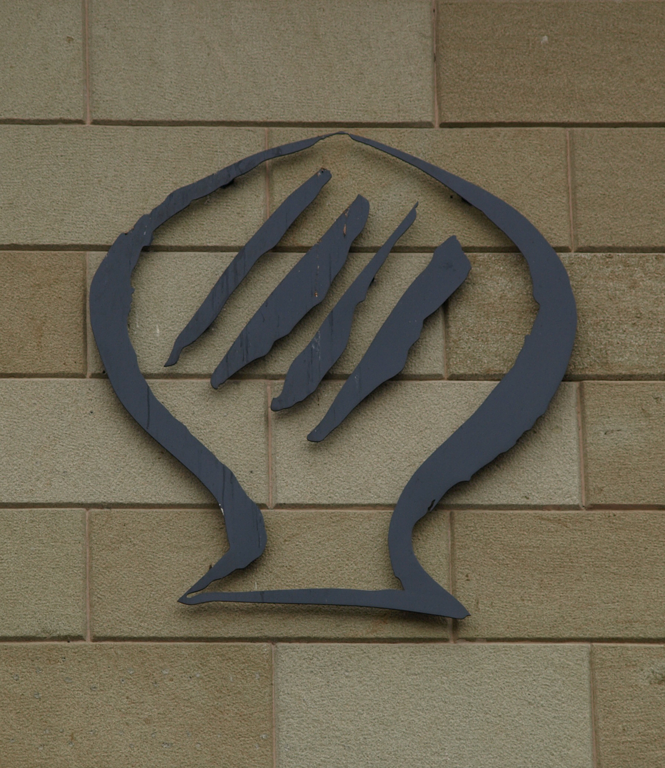 Caixa Manlleu (headquarters in Manlleu, Catalonia, Spain)